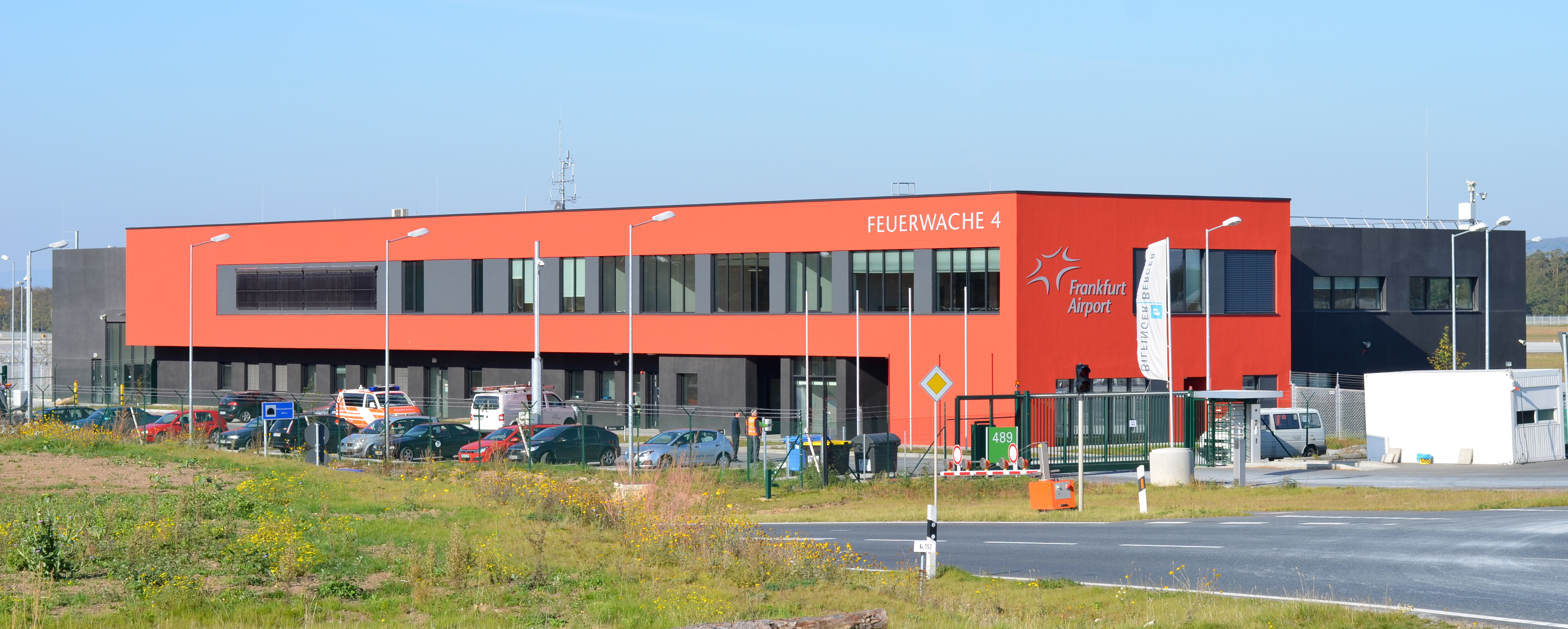 Fire station 4 at the airport Frankfurt (Fraport)